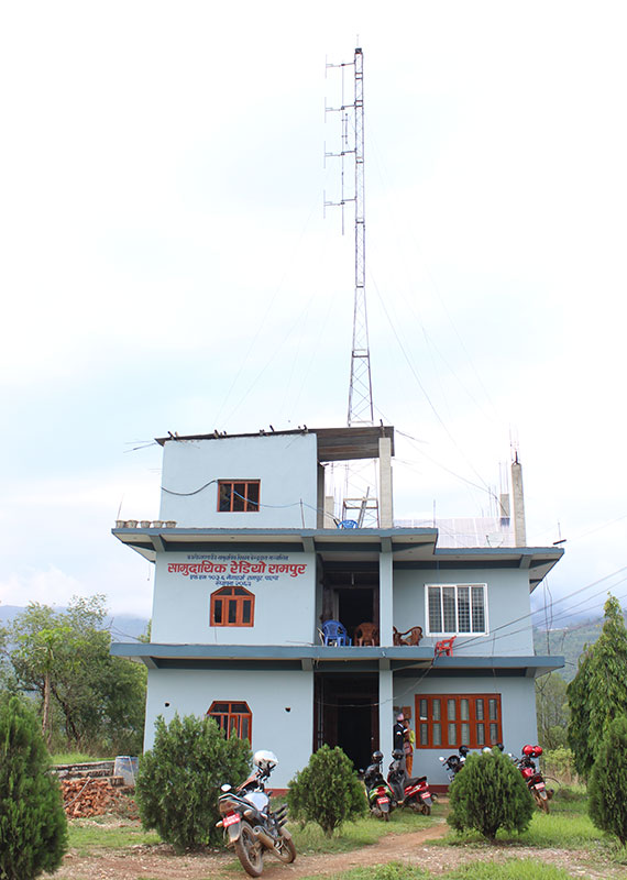 Radio Building